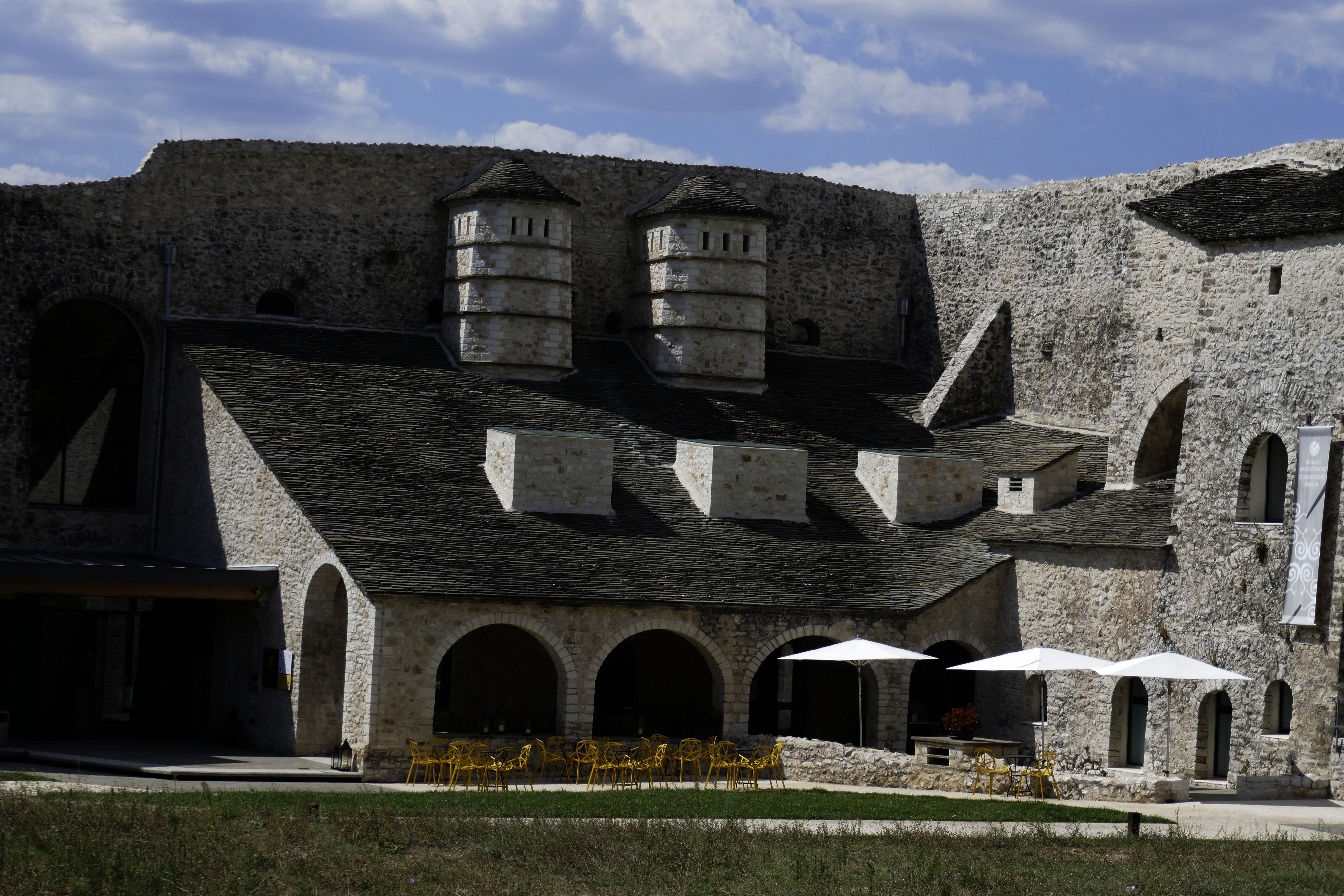 Part of the Ethnic museum of Ioannina